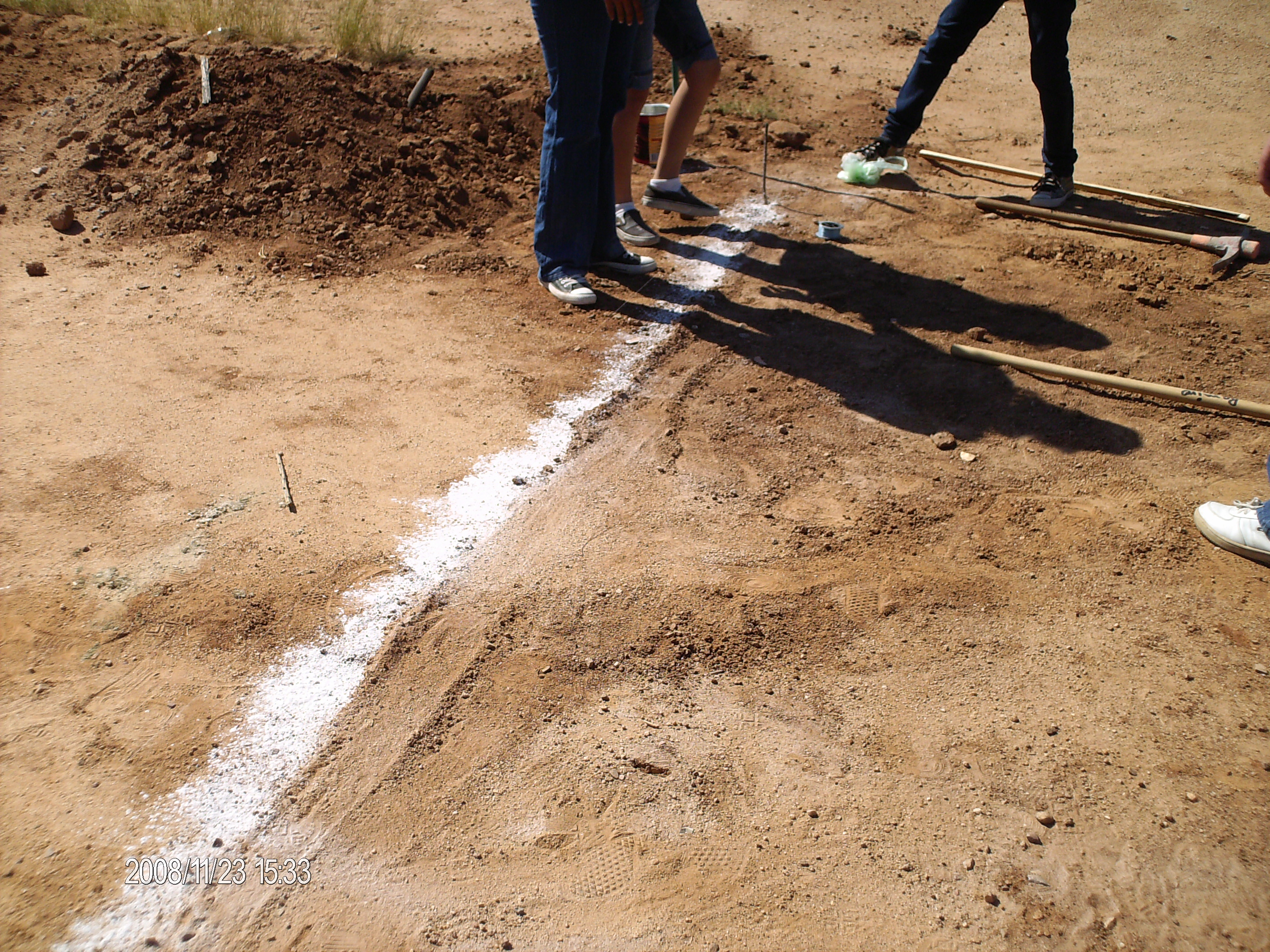 trazo